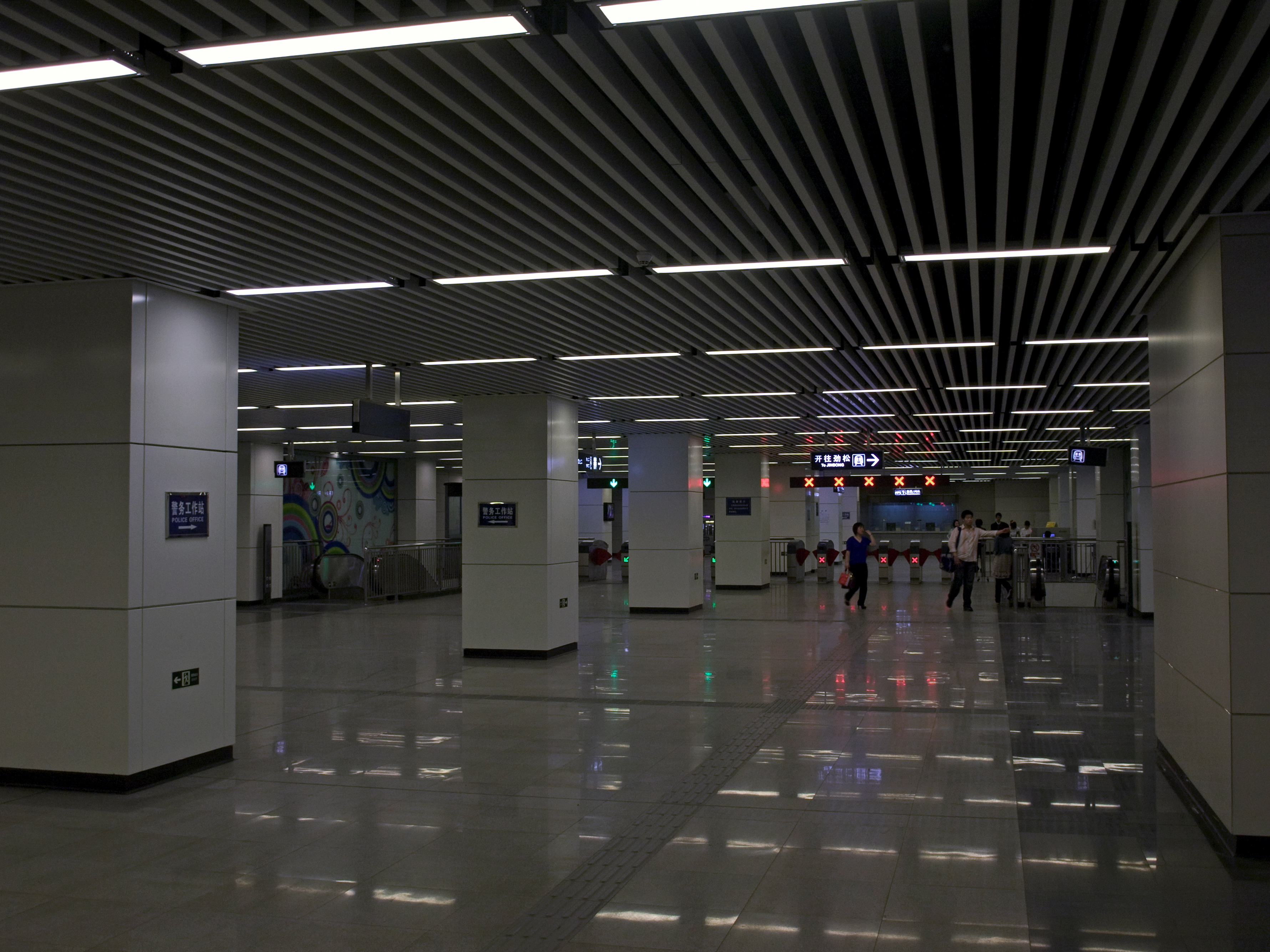 Bagou station, Beijing Subway